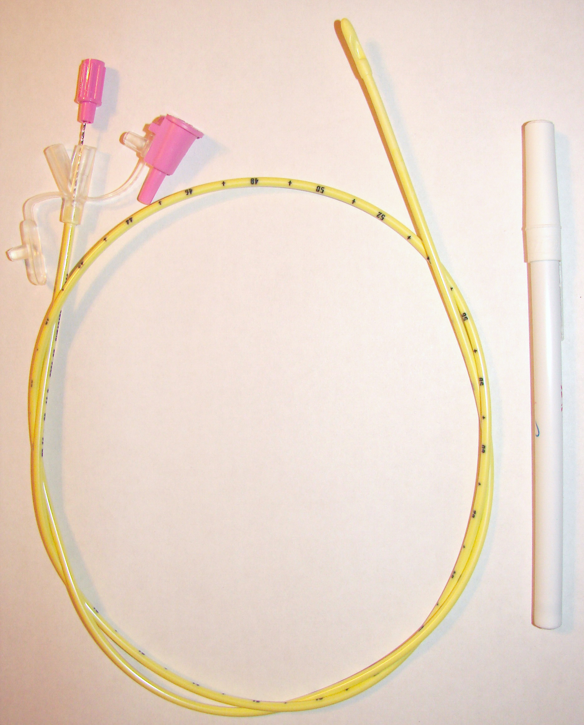 CORPAK MedSystems Corflo (polyurethane) NG feeding tube with stylet and non-weighted tip, 8 Fr × 36 in (91 cm), next to a ballpoint pen to compare sizes